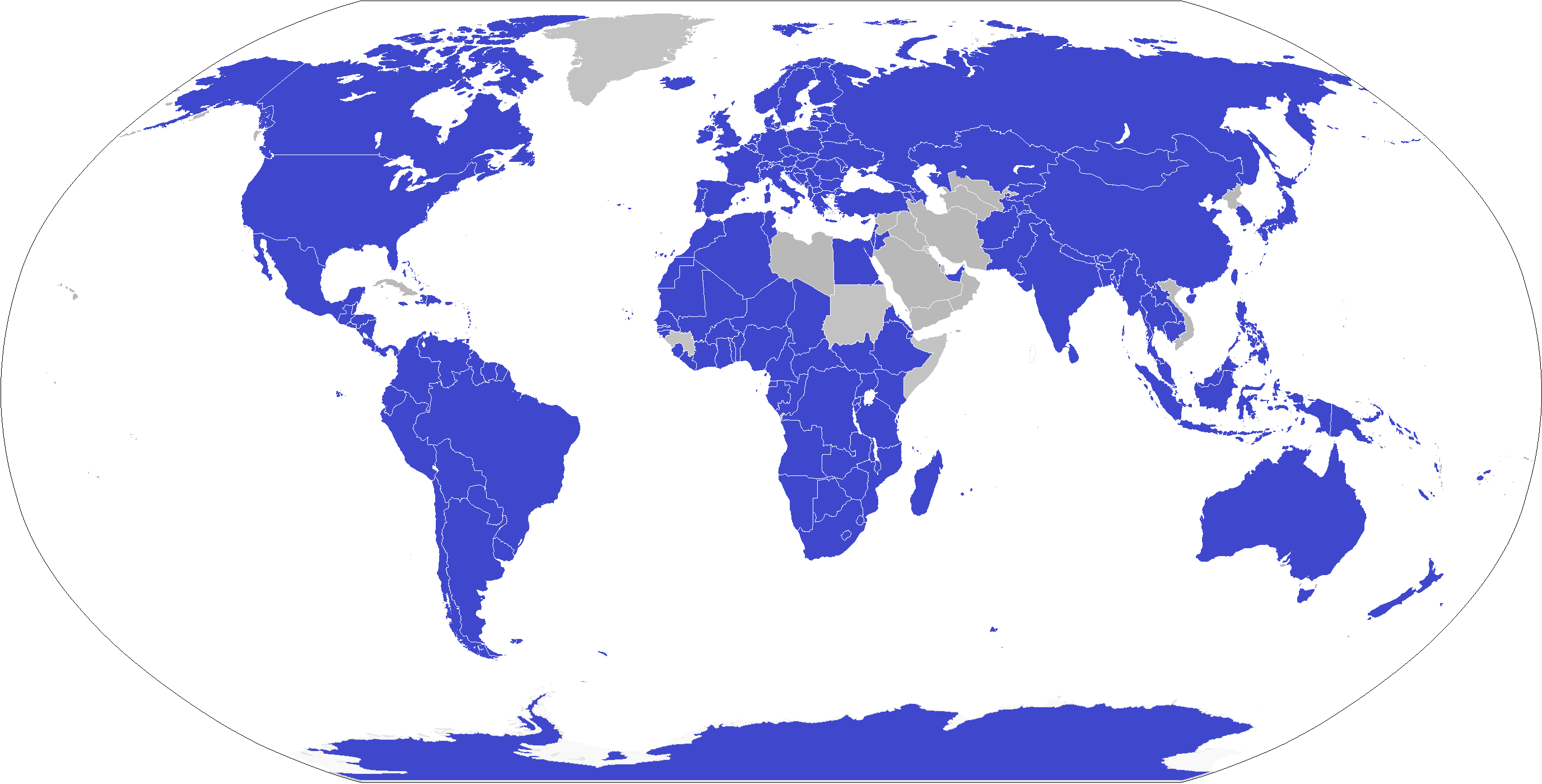 Map about the presence of the Rotary International Organization in the World Countries with active Rotary clubs. Countries without any Rotary Club.